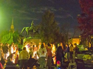 Occupy Charlottesville gathers for a general assembly